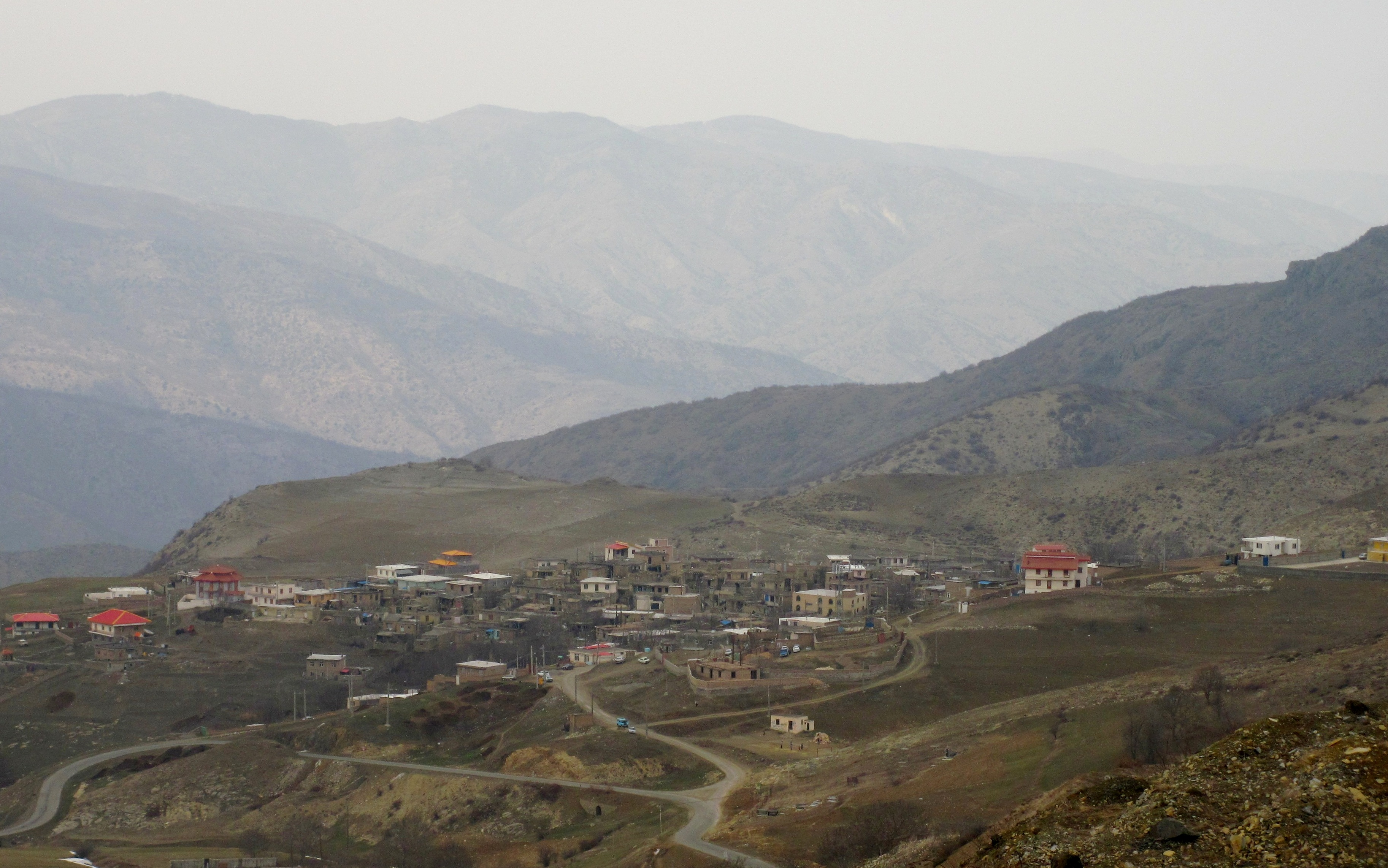 Ravanbakhsh Leysi took this photo of Hejrandoost village for me.